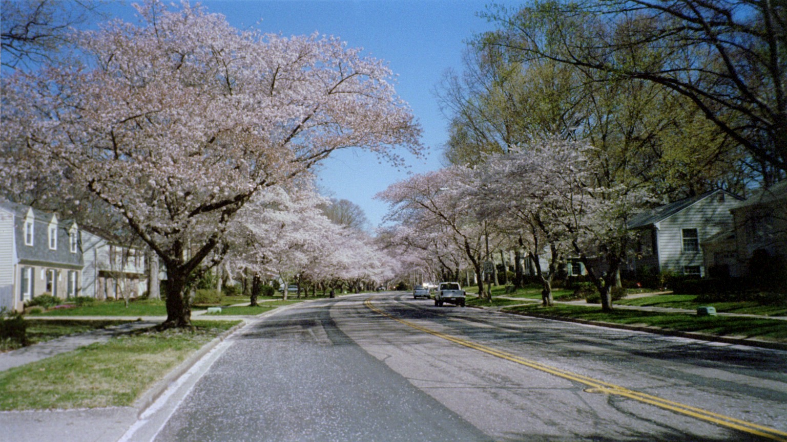 As the owner of the copyright on this picture, I release my rights to Wiki. MsCrof 21:27, 25 August 2005 (UTC)